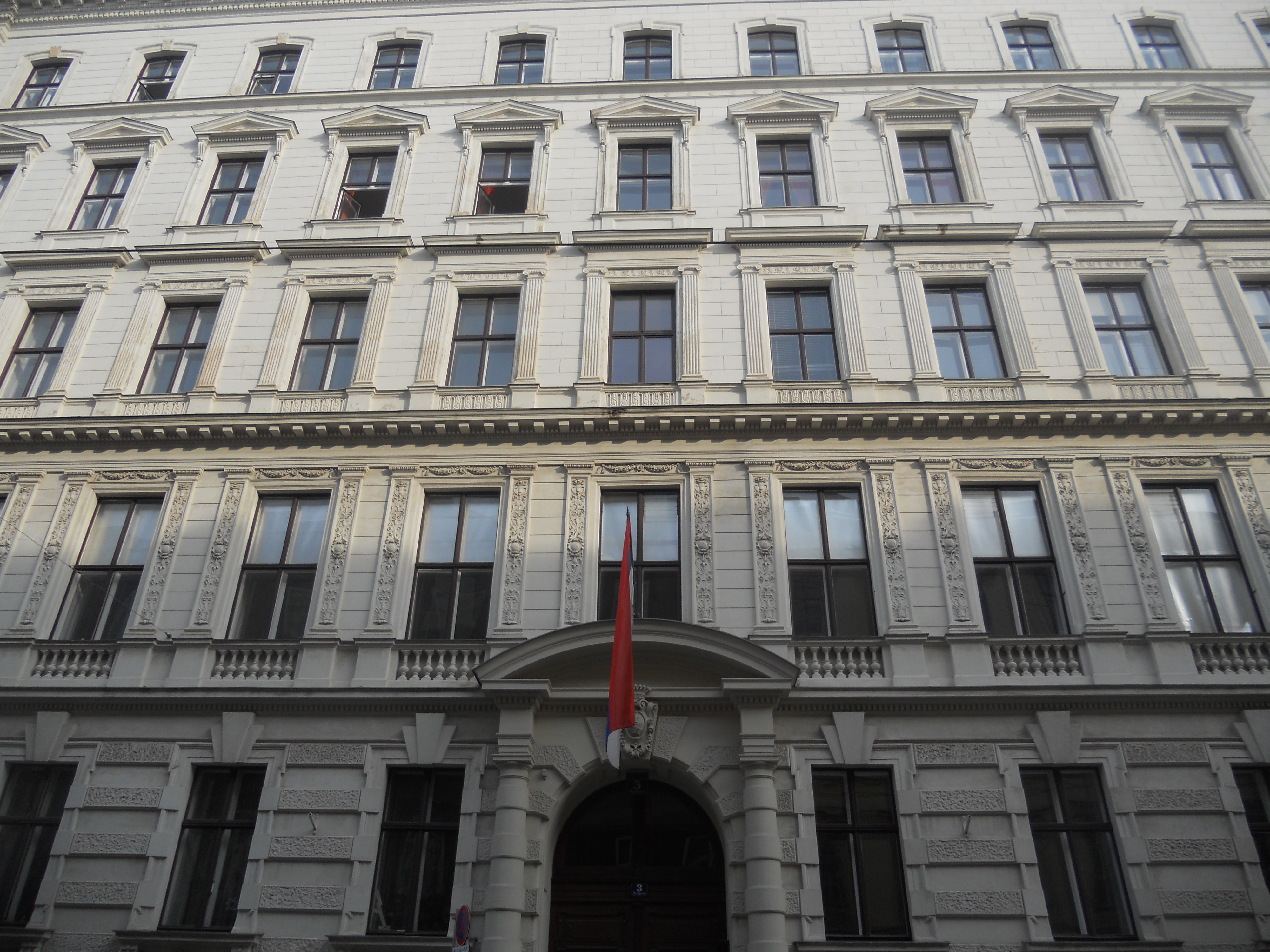 House Ölzeltgasse 3, Serbian embassy in Vienna